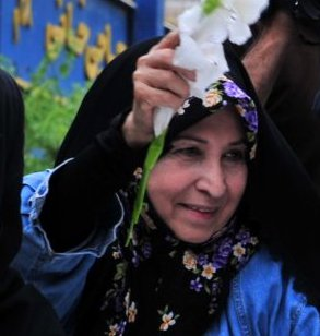 Silent demonstration for saying condolence to family of this week martyrs